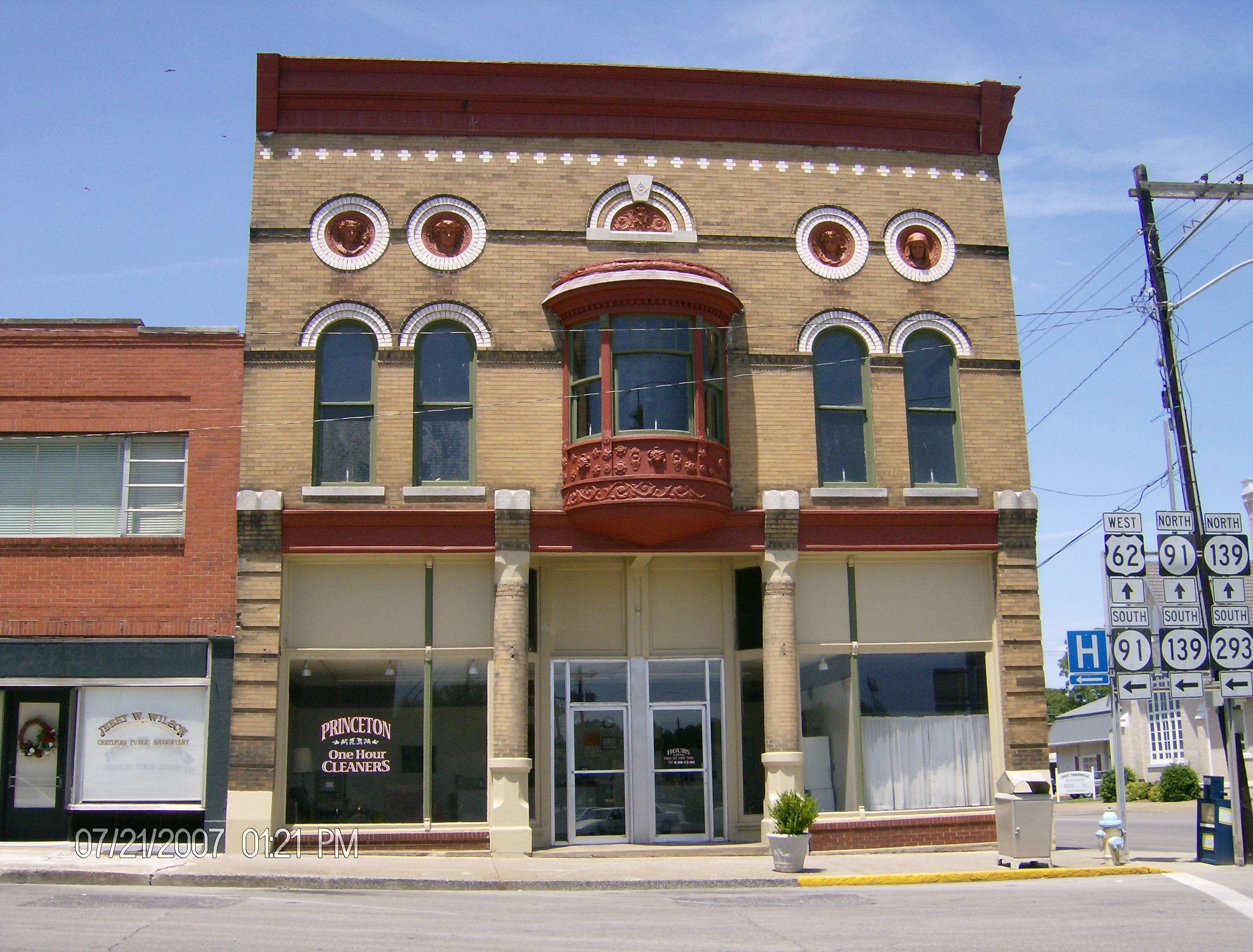 115 West Court Square in Princeton, KY. The building, now owned by Princeton One Hour Cleaners, is part of the historic commercial district of downtown Princeton. The building, built in 1899, was the former location of Princeton's Masonic lodge.